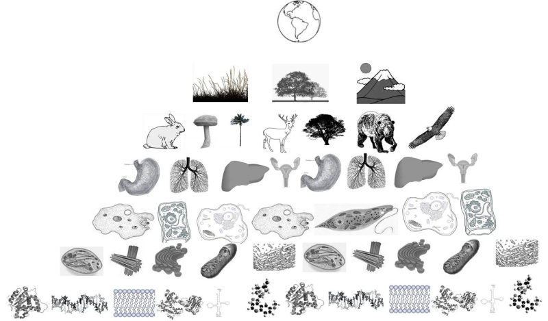 This picture represents the hierarchical structure of the organisation of biological matter